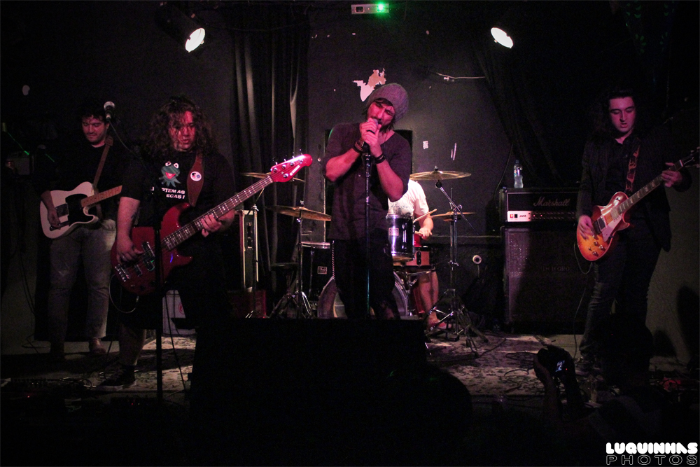 folks na planet music 2012